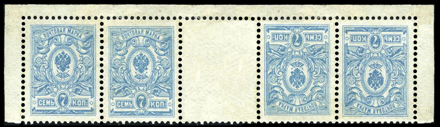 Russia stamps, 1908, 7 k. Trial